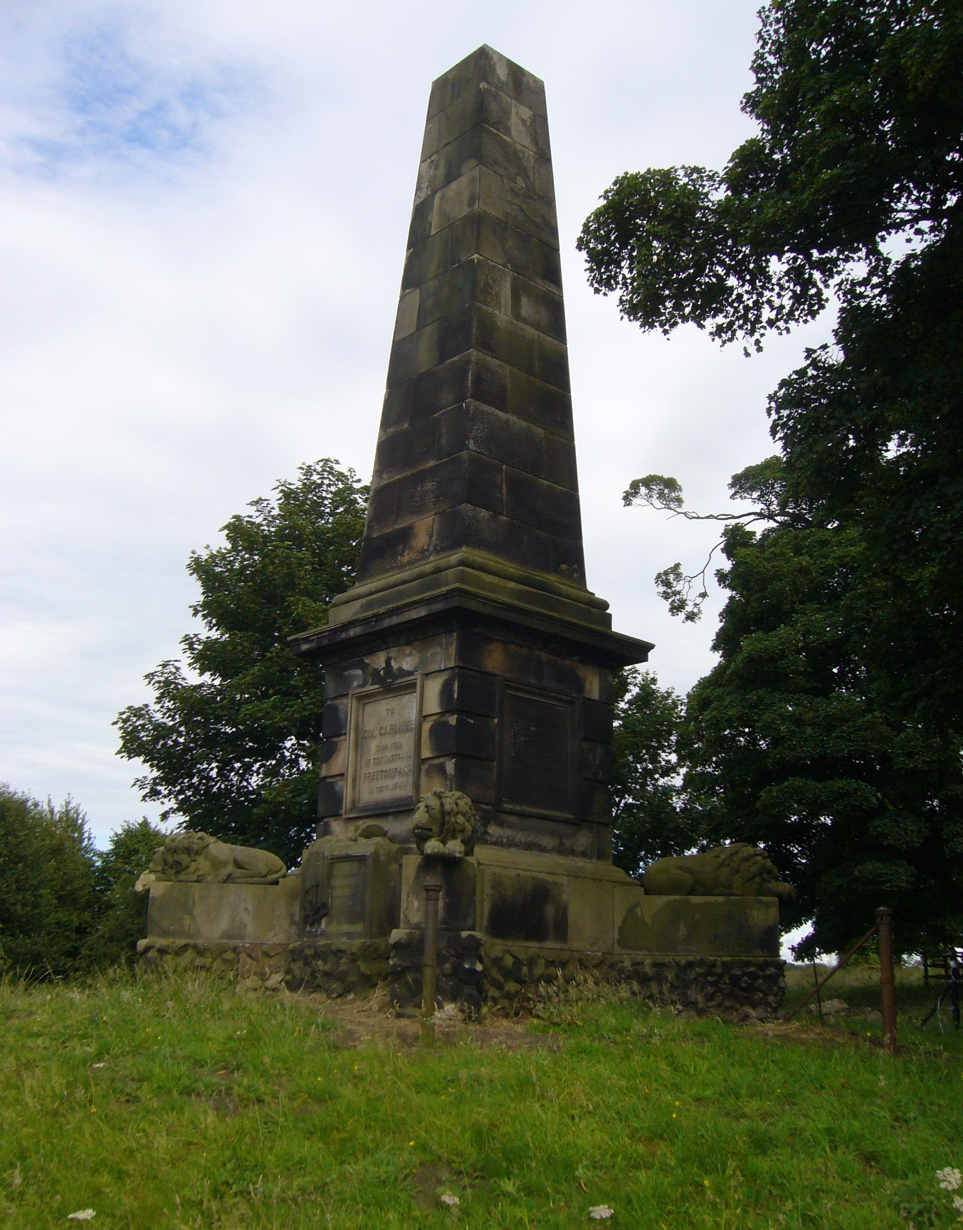 Colonel Gardiner's Monument at Bankton House, Prestonpans